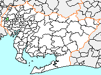 Position of former Heiwa town (平和町), Aichi, Japan